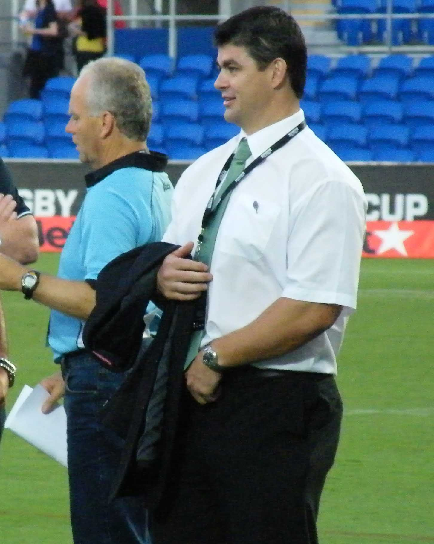 RLWC - Fiji v Ireland, Gold Coast 2008. Ireland prop Shayne McMenemy.